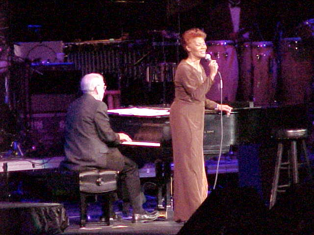 Dionne Warwick at the FIGO event